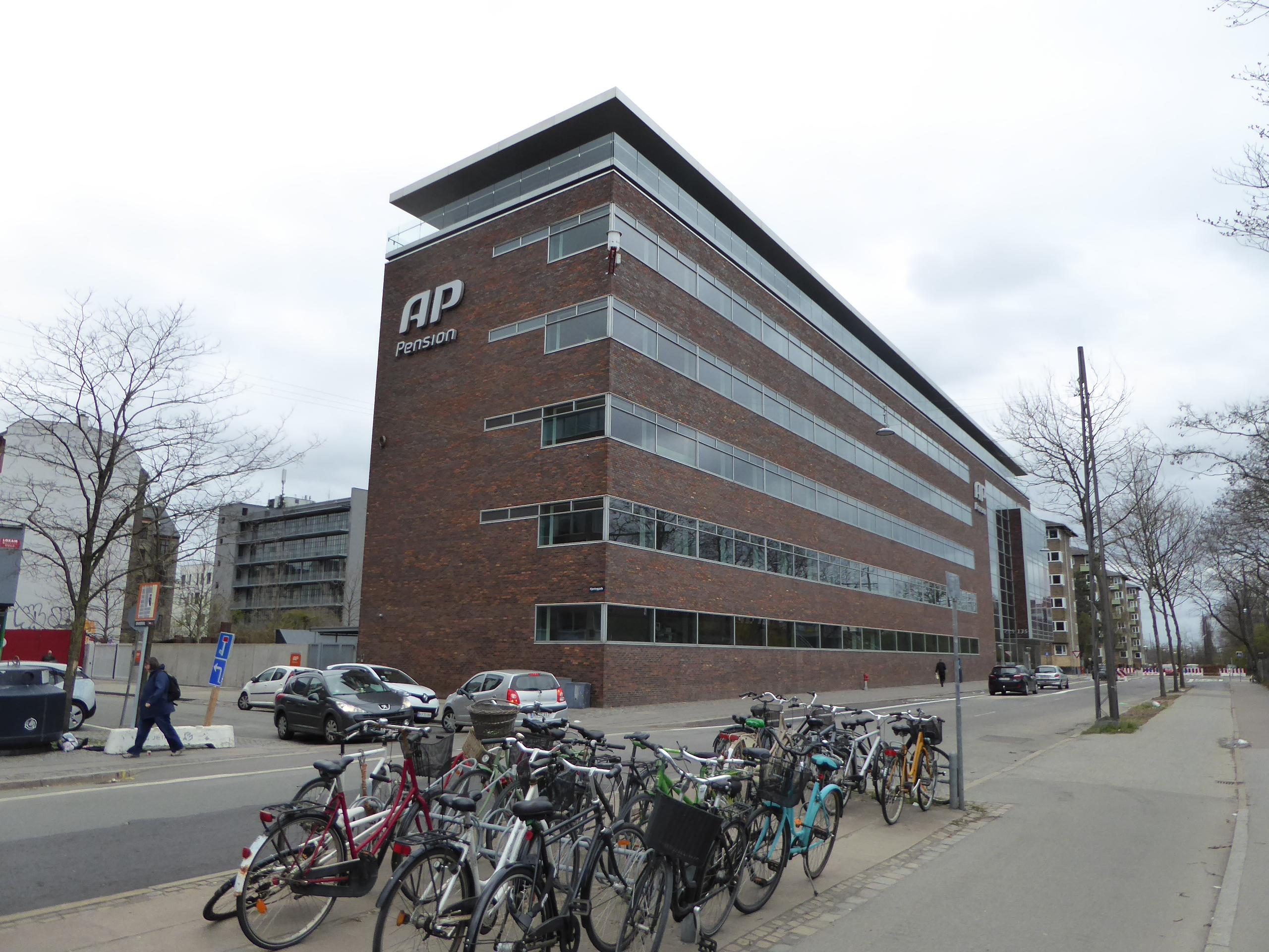 The pension fund AP Pension at Østbanegade in Østerbro in Copenhagen.